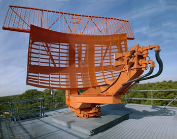 The antenna system of an Airport Surveillance Radar-9 with primary radar (parabolic antenna) and secondary radar (rectangular antenna, top). The secondary radar interrogates the transponder on the aircraft, which sends back a coded signal indentifying the craft and giving its altitude.